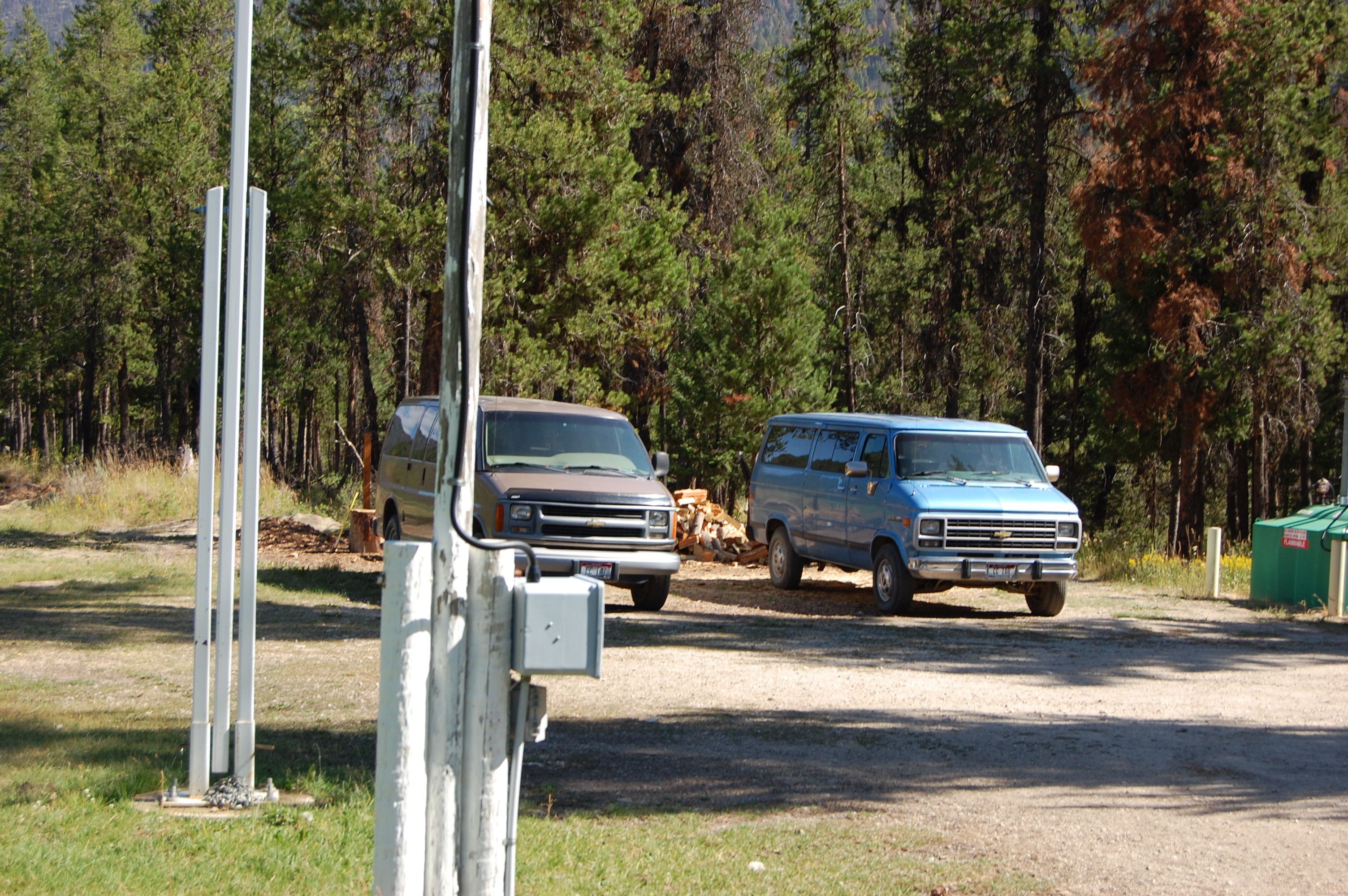 State of Idaho courtesy cars at 3U2